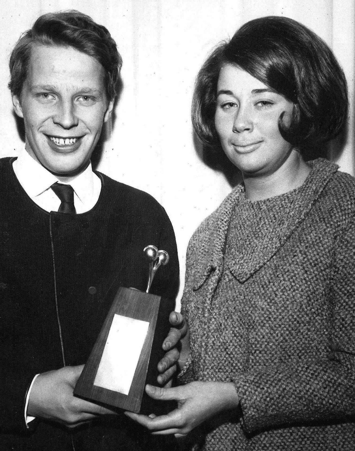 Photograph of the Finnish driver Hannu Mikkola with Kirsti Jouhki, after his victory at Teekkari-ralli.